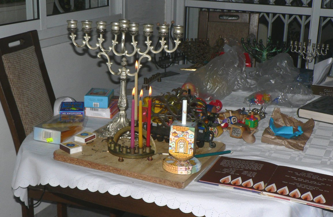 Chanuka חנוכה Author: MathKnight